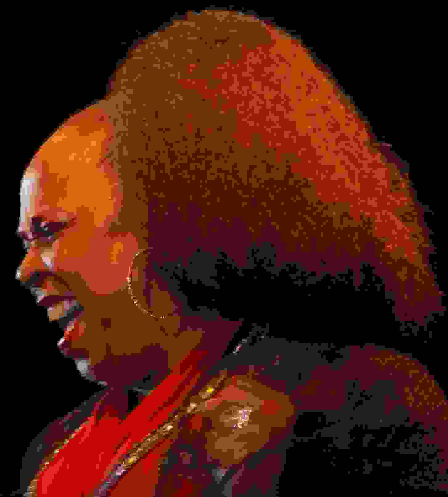 Betty Wright sings to a capacity crowd at Garrett Coliseum in Montgomery, Alabama at the Valentine Weekend Show.